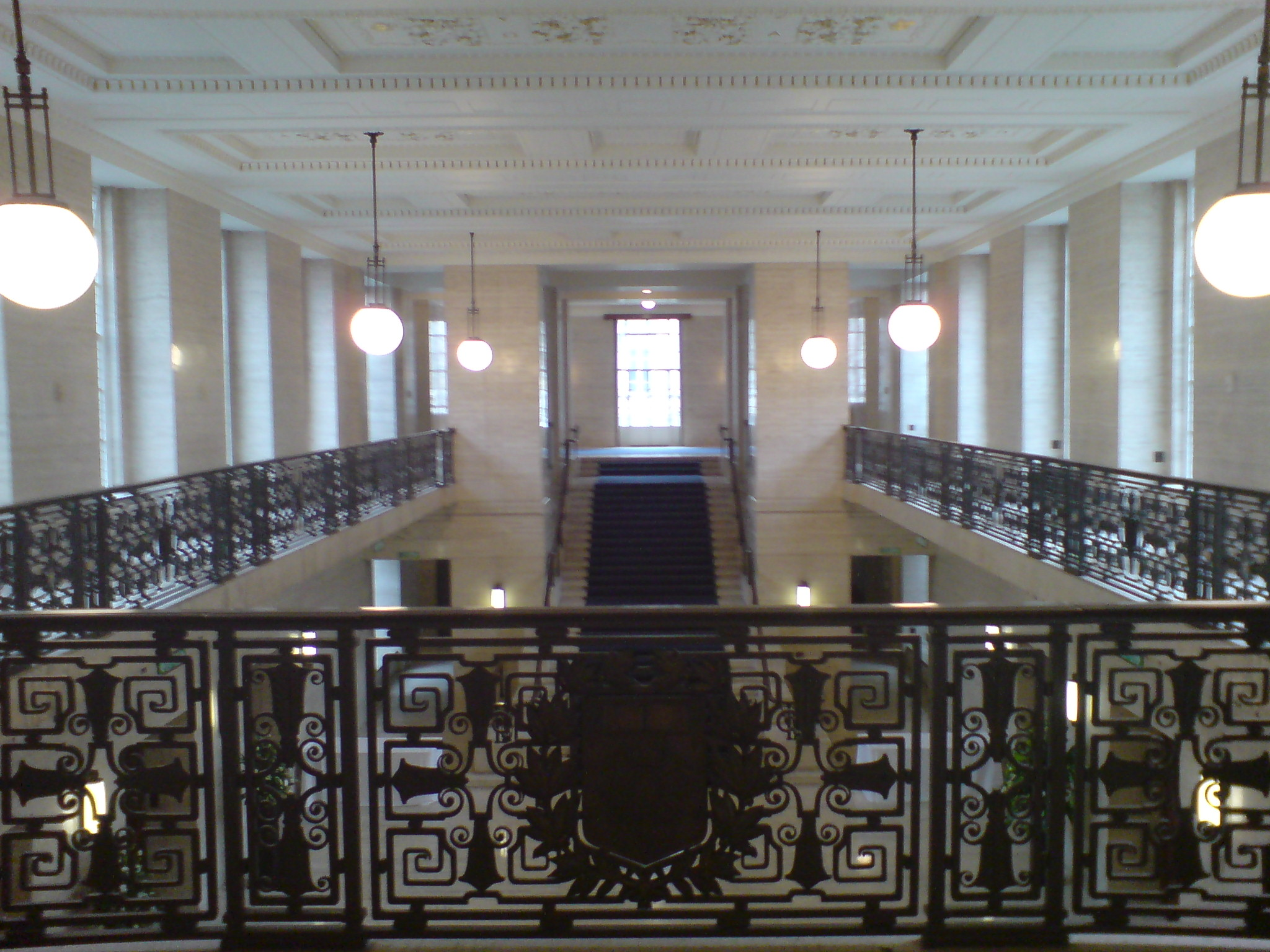 Interior Senate House, Dec 2006, Own Work.